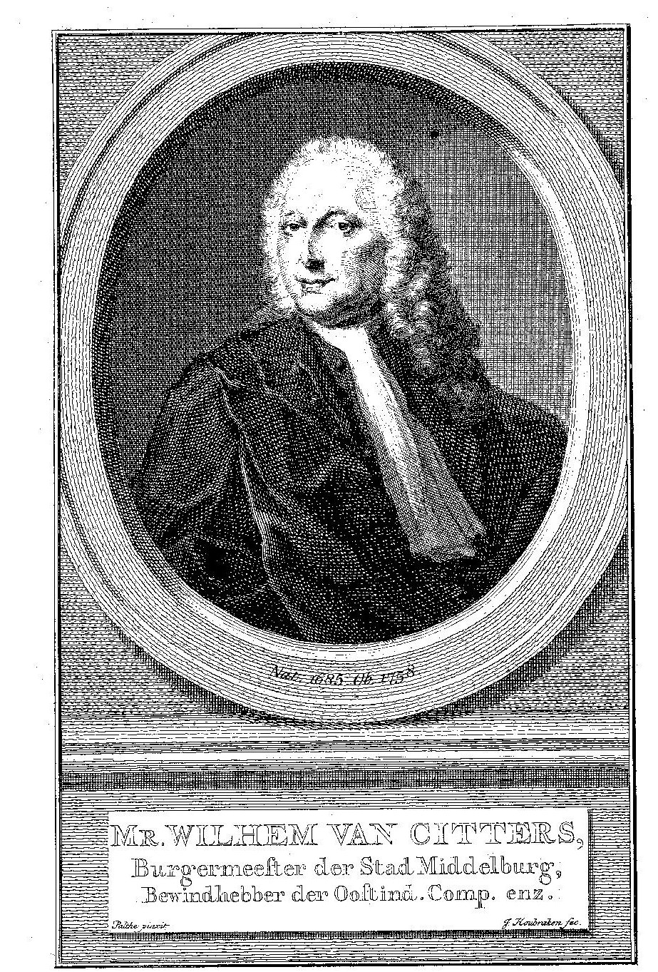 Mayor of Middelburg (1712-1748), Director Dutch East India Company